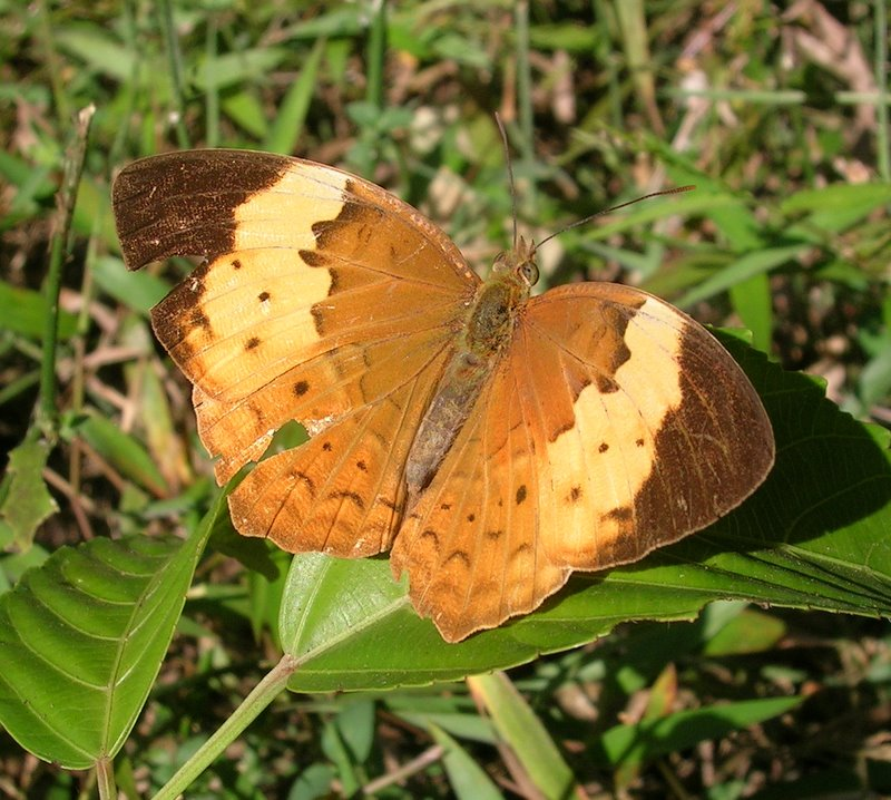 Rustic Cupha erymanthis from Dandeli, India